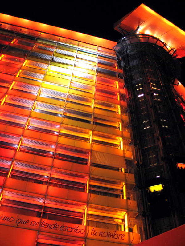 Night view of Puerta América Hotel (Madrid, Spain, built: 2003–2005). Façade designed by Jean Nouvel (born 1945).